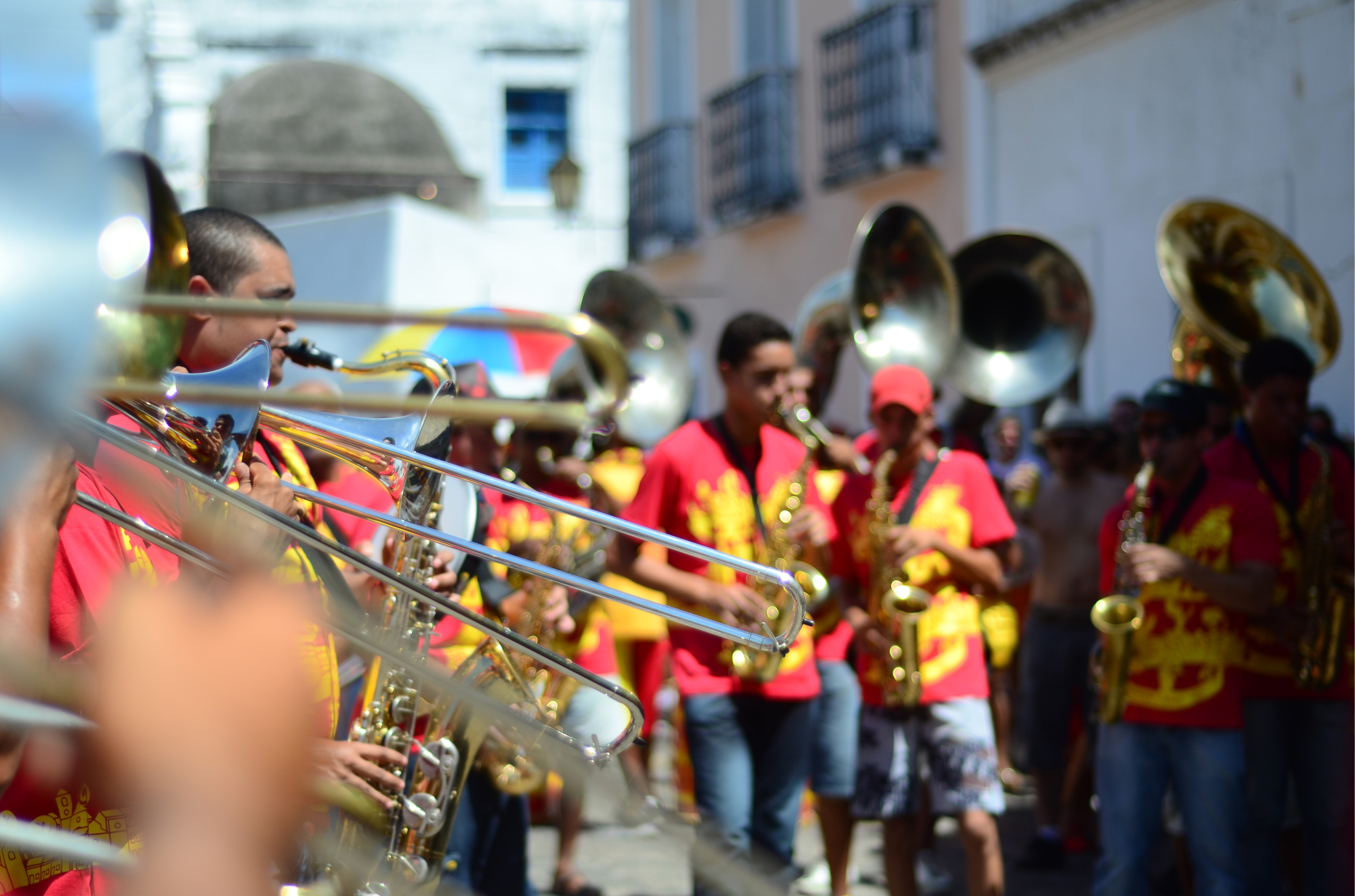 Frevo orchestra - Olinda, Pernambuco, Brazil